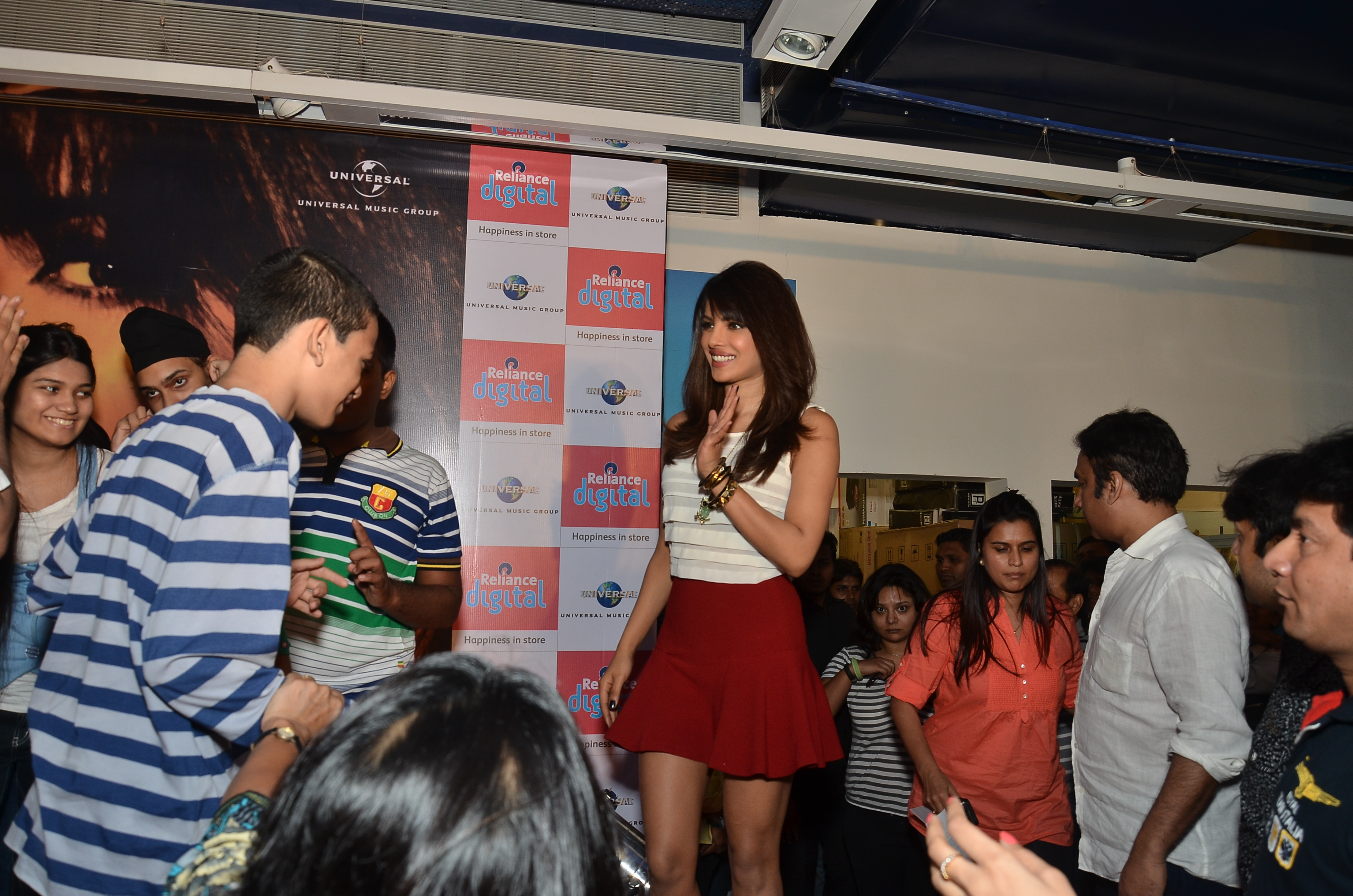 Priyanka at Reliance Digital Malad to spend time with autistic kids